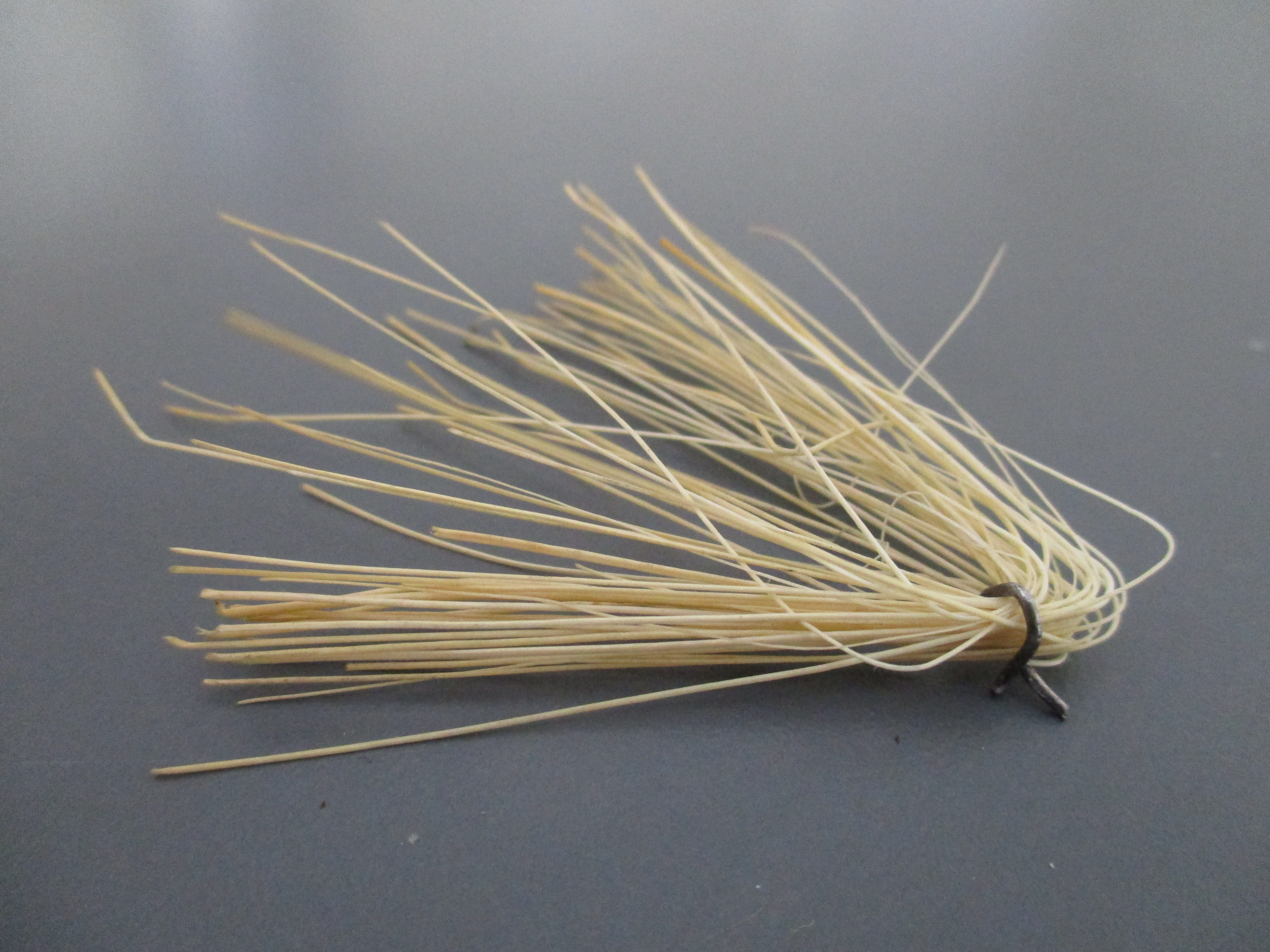 Filament tuft of fiber and staple wire extracted from a brush